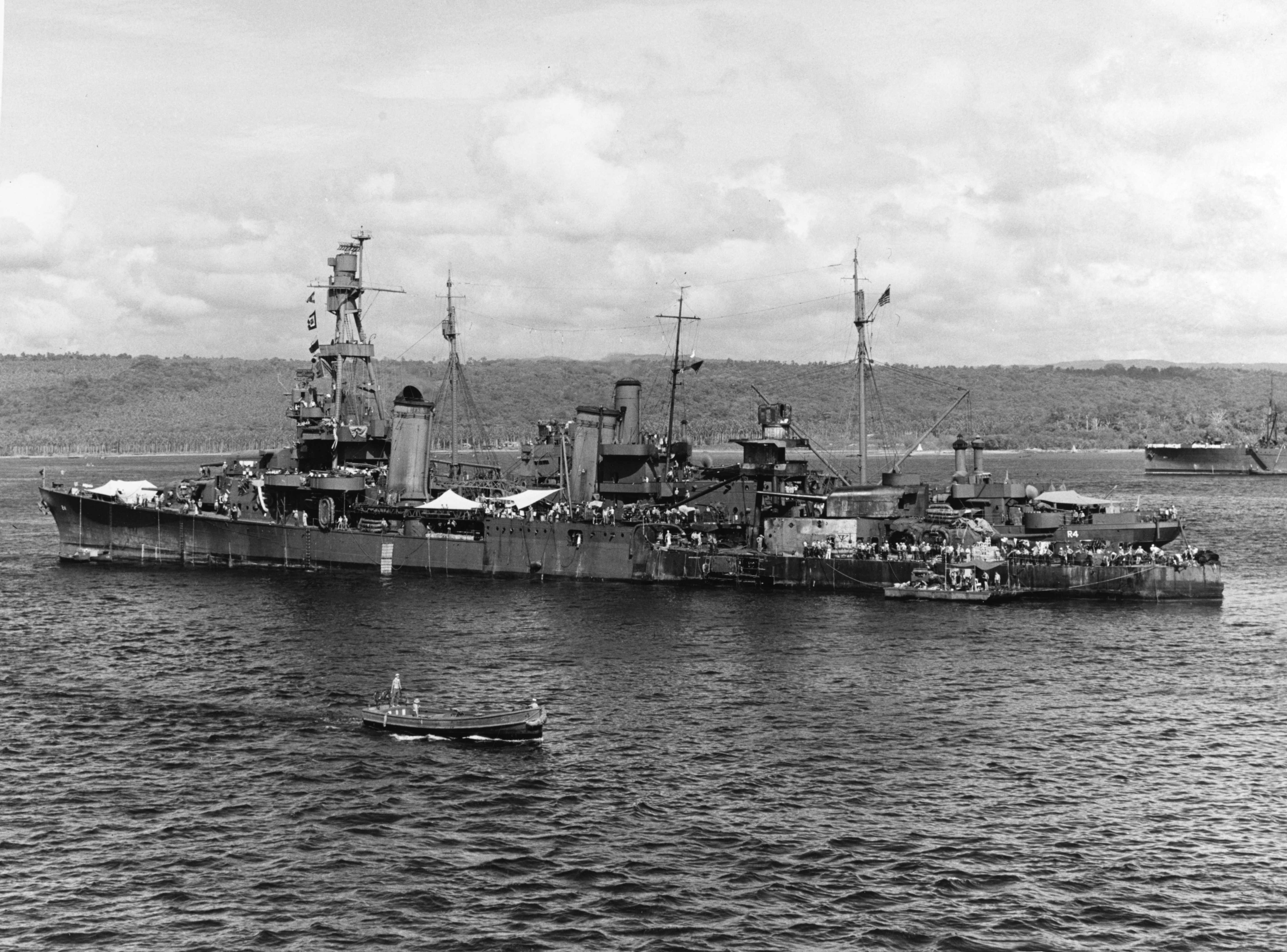 The U.S. Navy heavy cruiser USS Pensacola (CA-24) alongside the repair ship USS Vestal (AR-4), undergoing repair of torpedo damage received during the Battle of Tassafaronga, off Guadalcanal on 30 November 1942. Note the hole in her side below the mainmast, and the extensive fire damage in the area of that mast and the number three eight-inch gun turret. Photographed at Espiritu Santo, New Hebrides, on 17 December 1942.